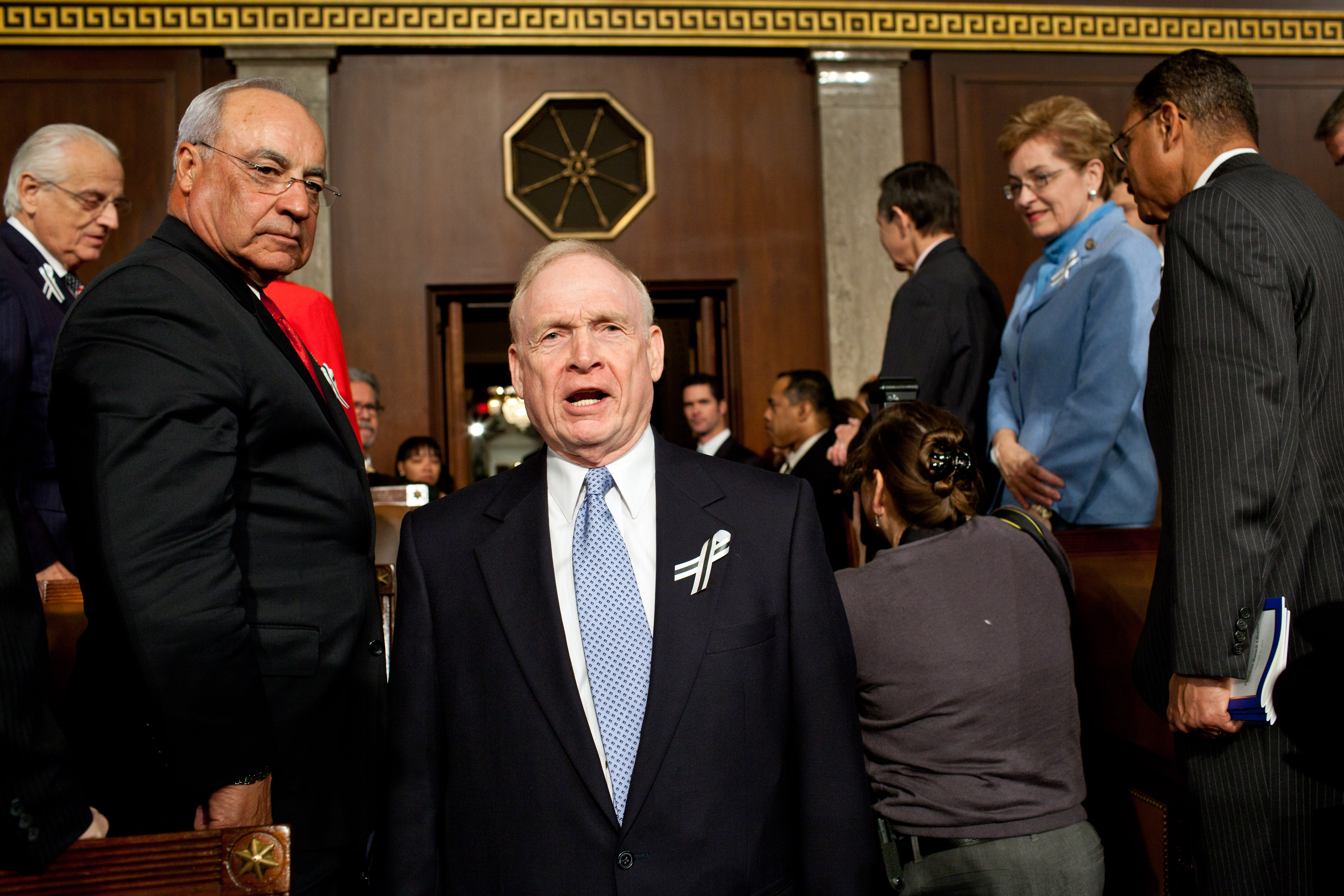 Wilson "Bill" Livingood, the Sergeant at Arms of the U.S. House of Representatives, announces the arrival of President Barack Obama on the floor of the House Chamber at the U.S. Capitol for the 2011 State of the Union Address to a joint session of Congress.